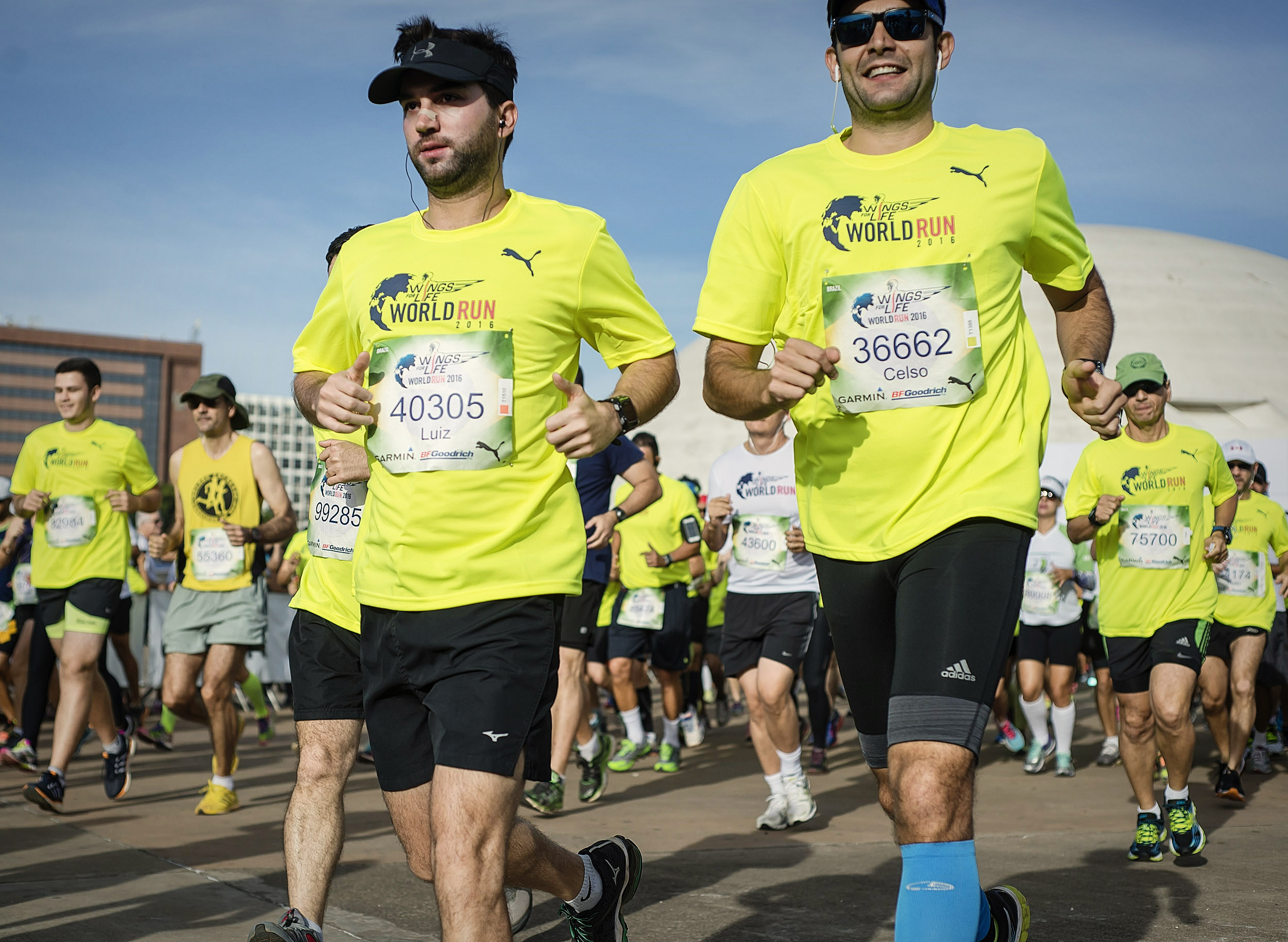 Wings for Life World Run Brasil College 2016. Hotel Royal Tulip Alvorada. Brasília. DF. 08/05/2016